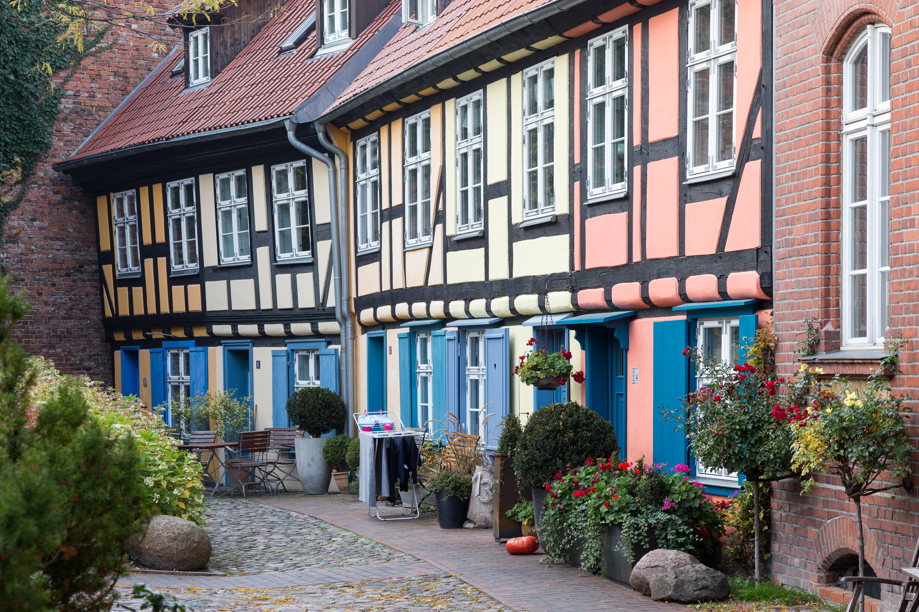 Timber framed houses "Am Johanniskloster" in Stralsund, Germany